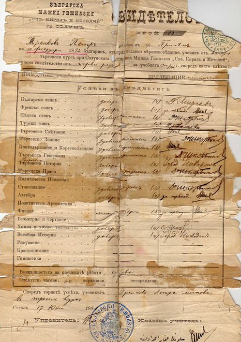 Petar Trenkov from Prilep school diplom